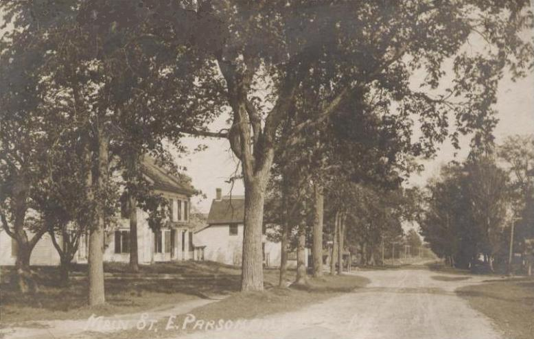 Street scene, East Parsonsfield, Maine